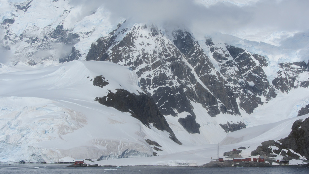 Brown Station is set among the beauty of Paradise Harbor